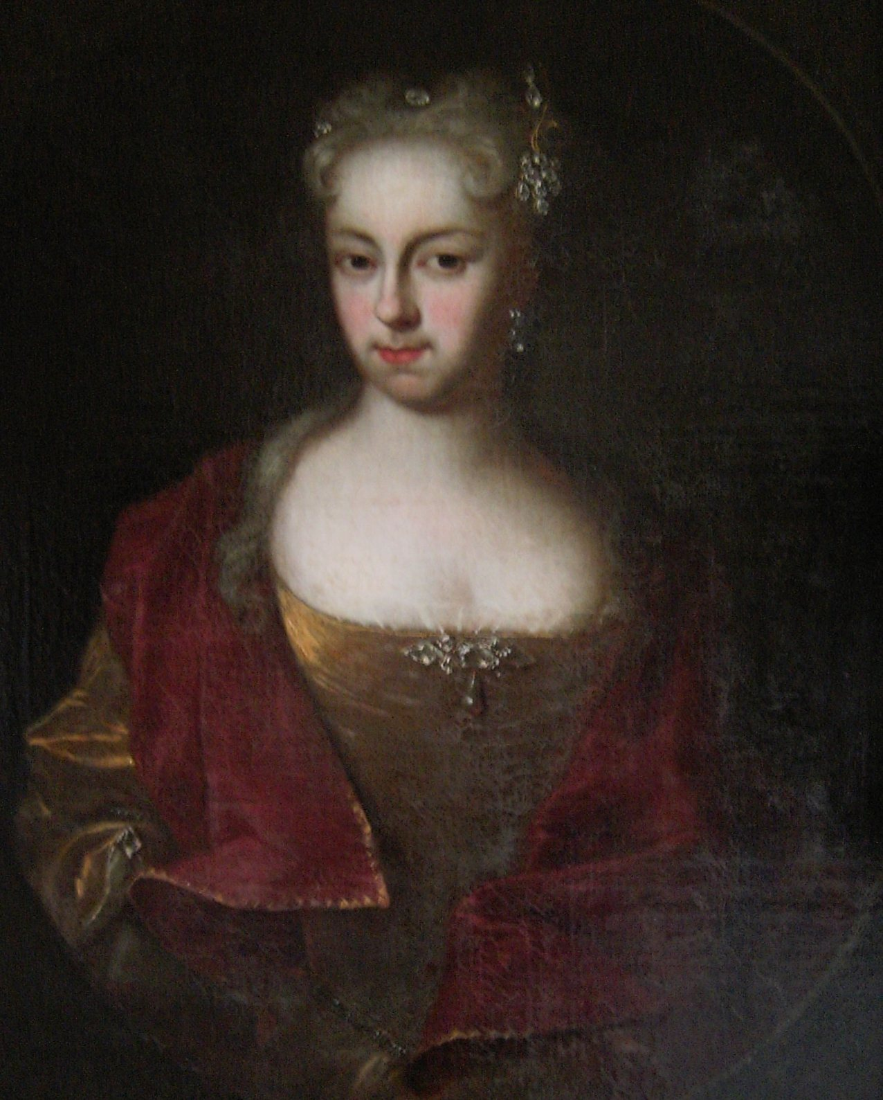 Portrait of Anna Constantia von Brockdorff, Countess of Cosel (1680-1765)